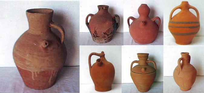 Botijas different types of Spanish pottery. Museum Chinchilla Montearagón ceramic material. Belmonte Useros collection composition.